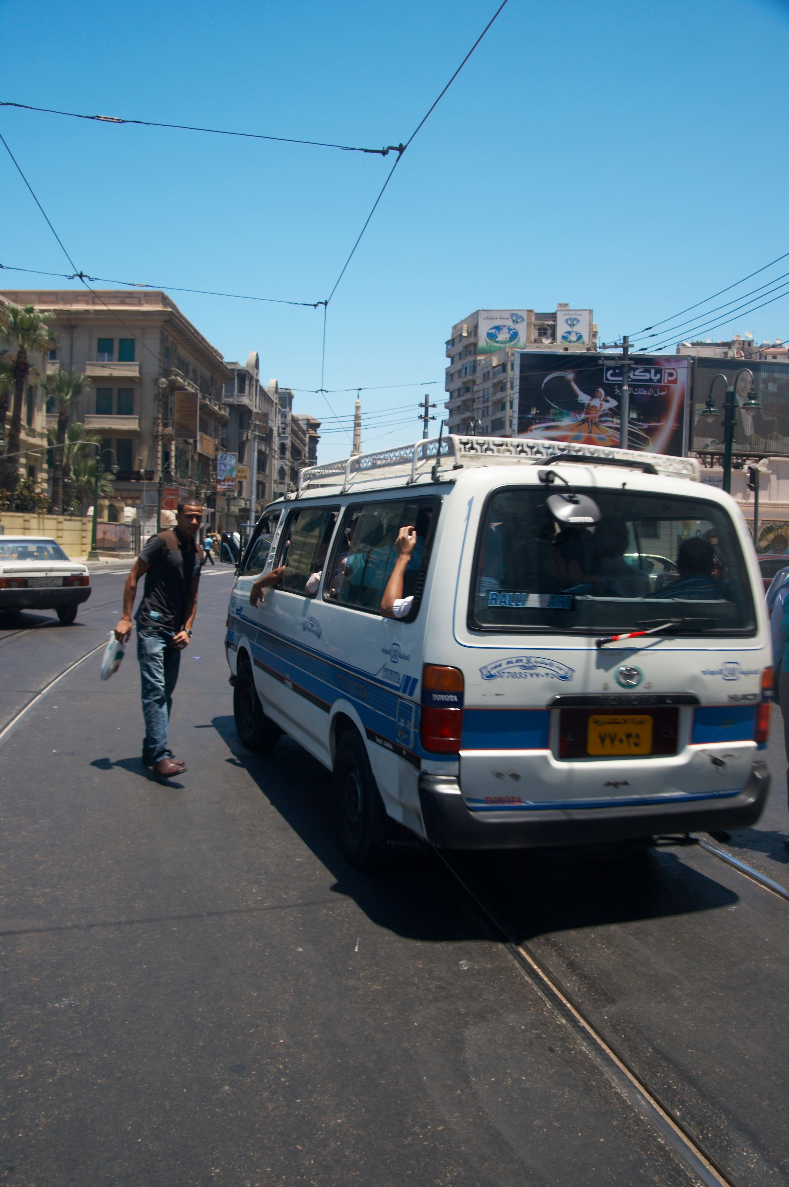 Alexandria, Egypt.